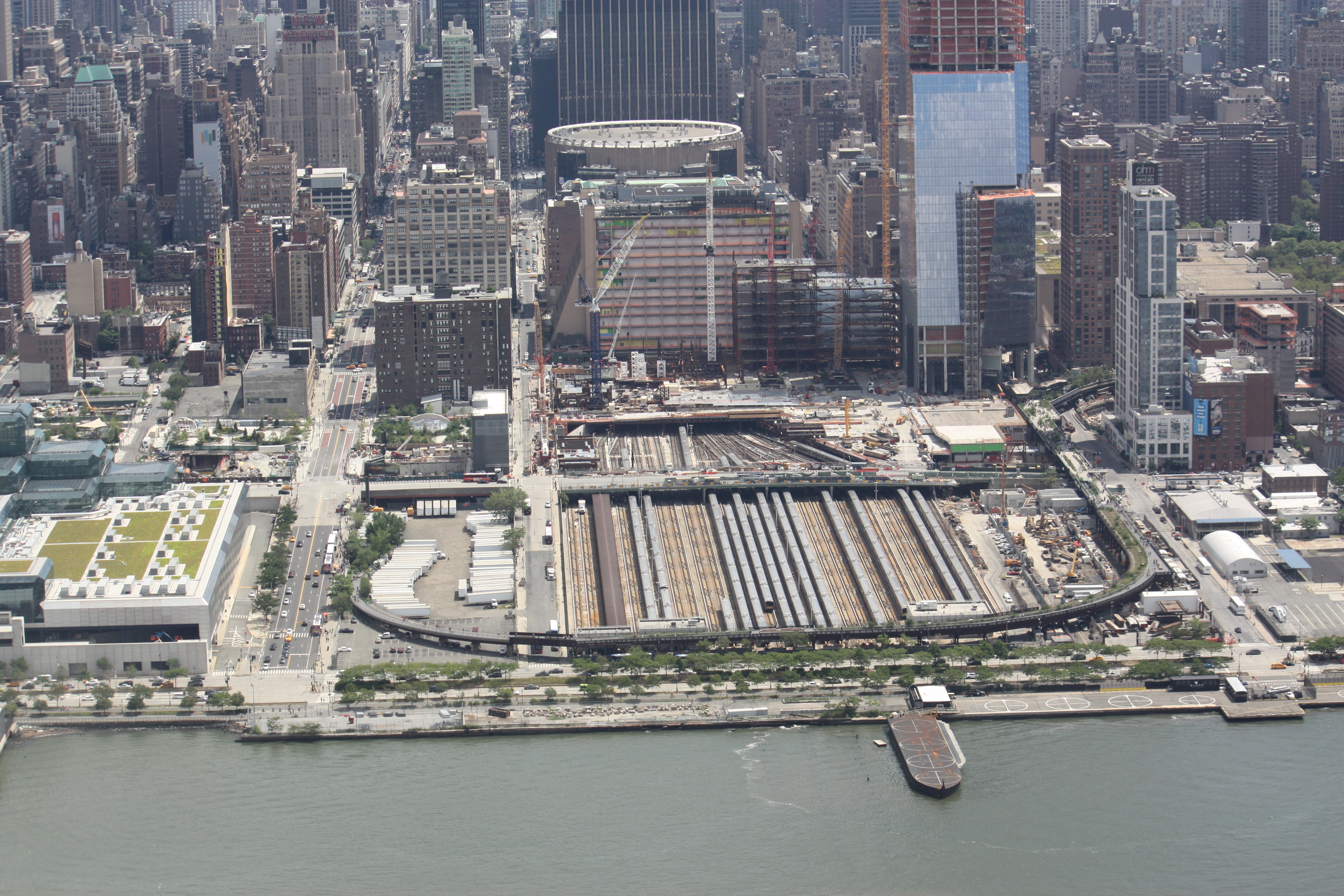 NYC Penn Station